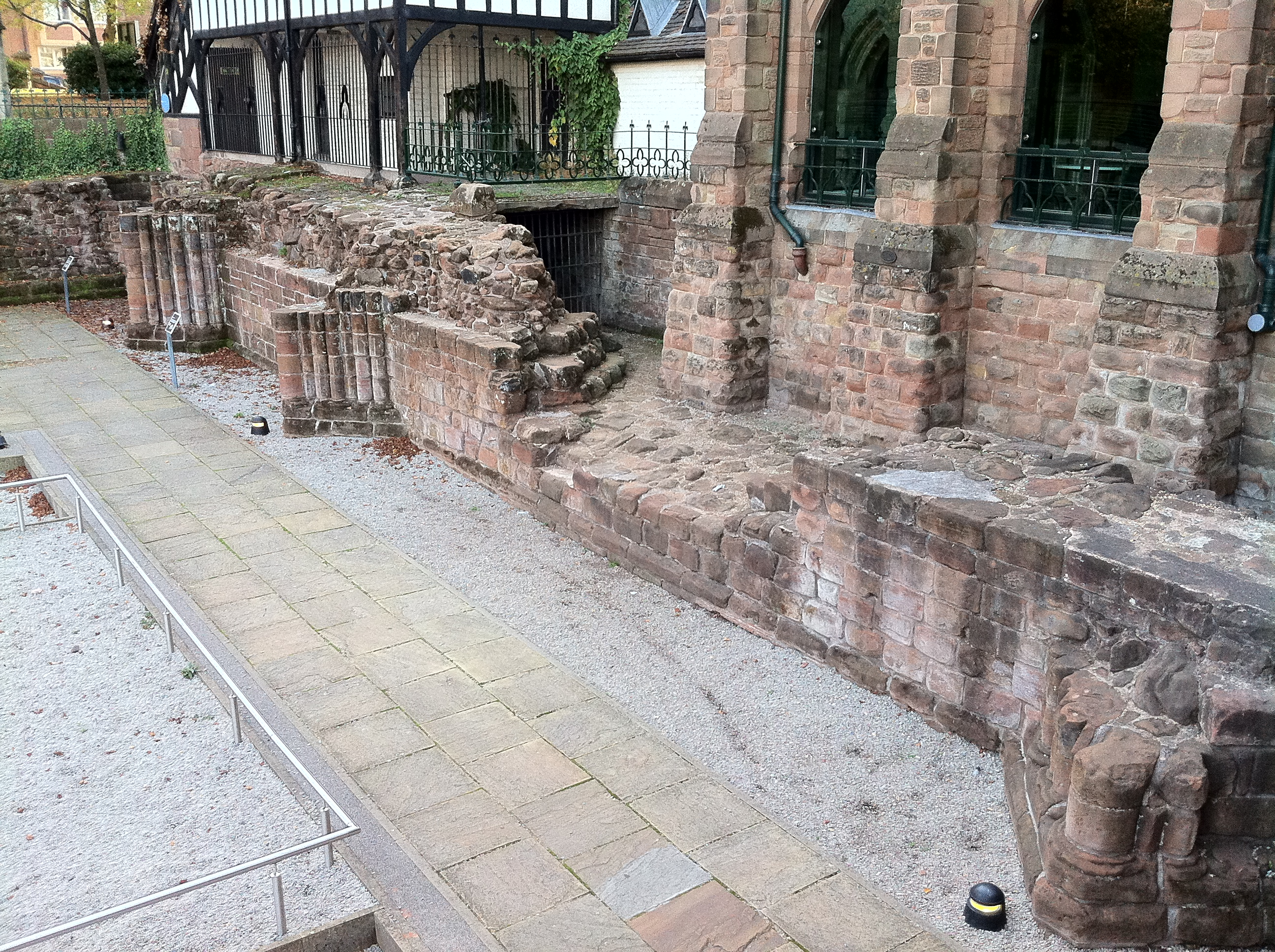 The remains of the west wall of St. Mary's Cathedral in Coventry, UK. The gap in the centre would have contained the main door. The building on the right was the Blue Coat School built in 1856.